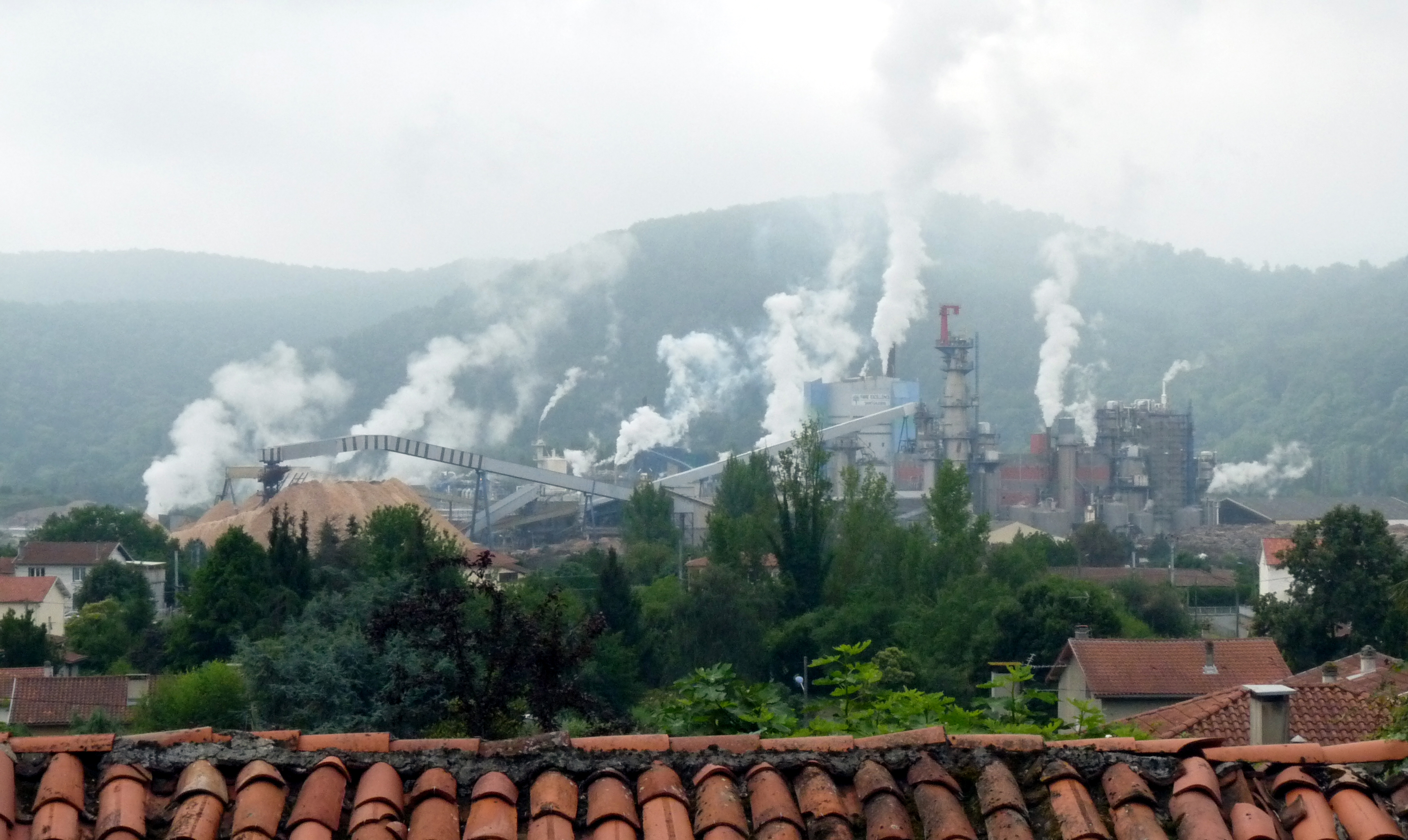 Cellulose factory in St Gaudens (France)